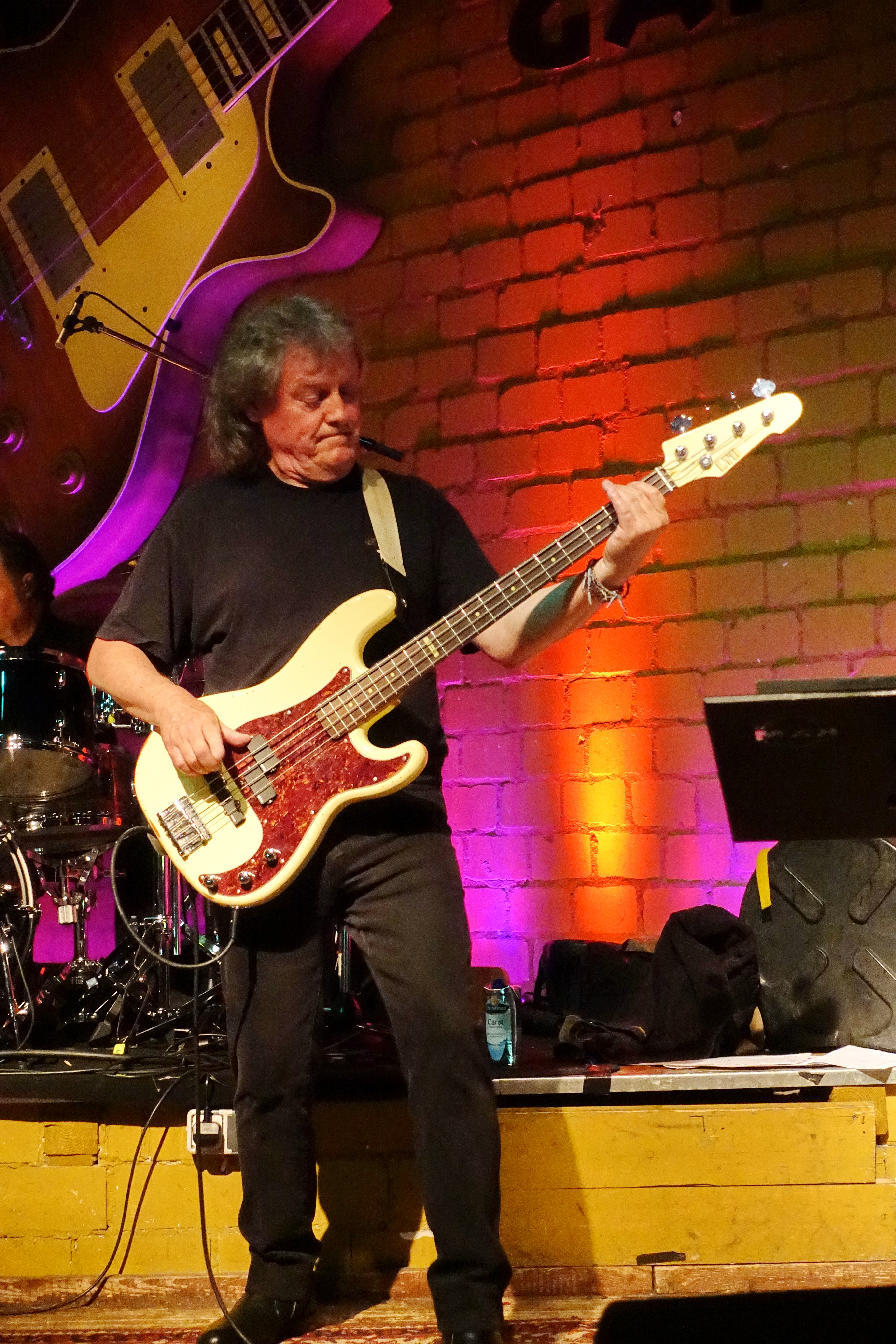 Bassplayer Mark Clarke in Concert with Clem Clempson and Ralph Salmins (JMC)